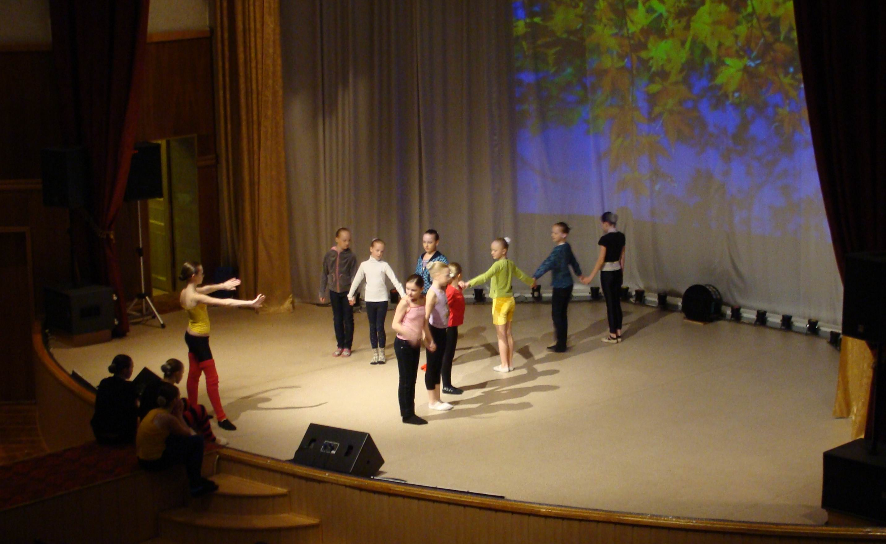 Rehearsal